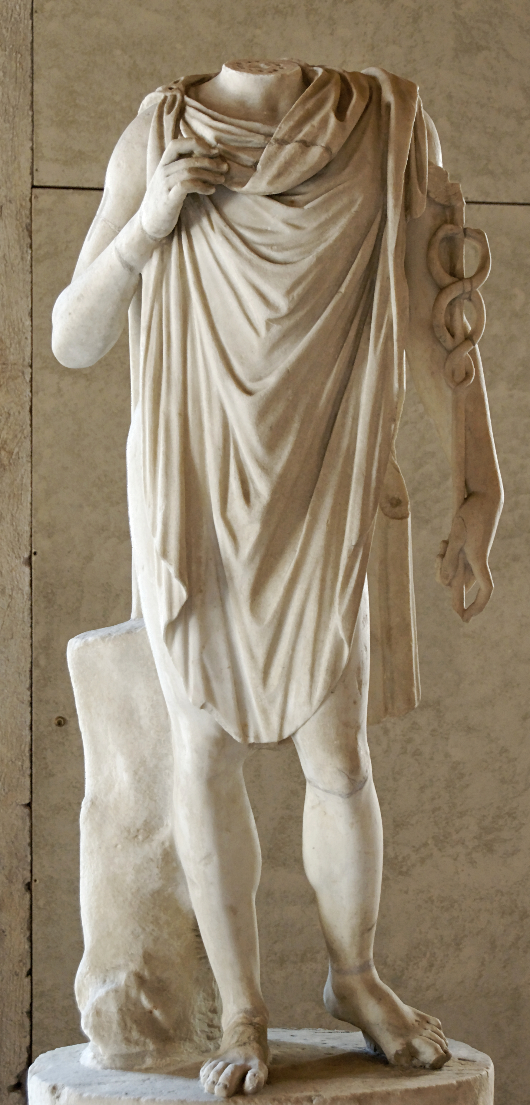 Headless statue of Hermes with traveller's cloak and caduceus. Marble, Roman copy from the 1st century CE after a bronze original of the 5th century BC.